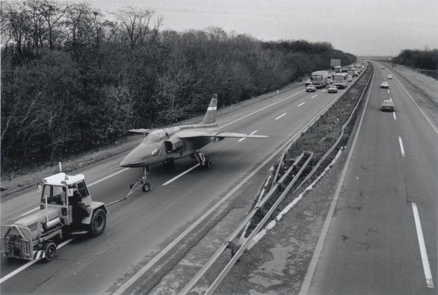 Soko Orao J-22H - arrival in Aeronautical Museum-Beograde